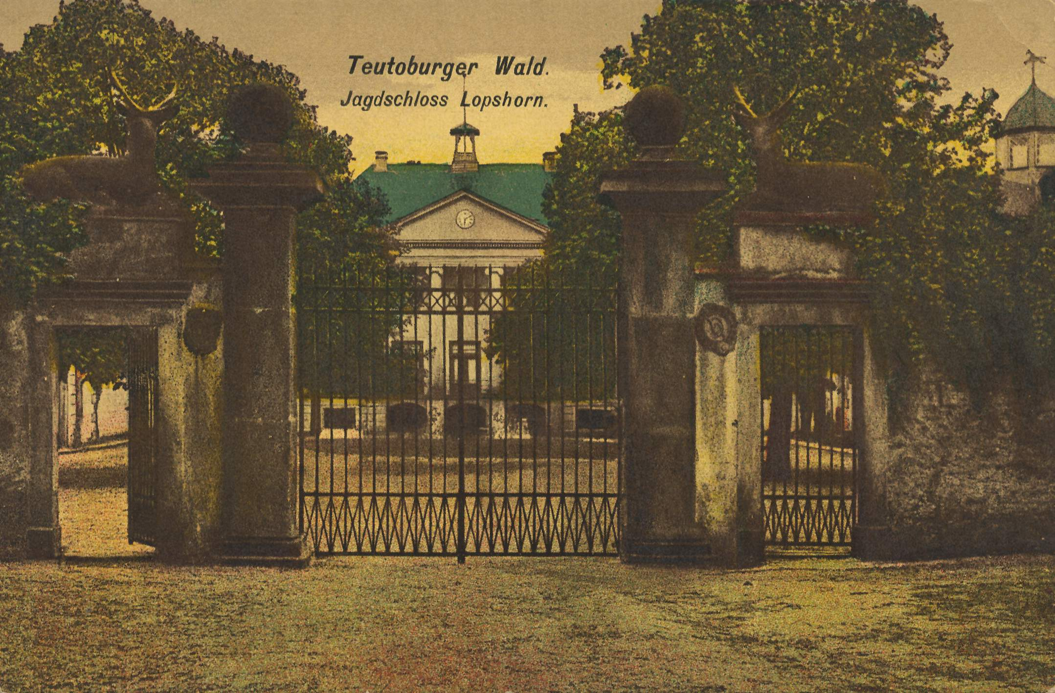 Jagdschloss Lopshorn at 1900